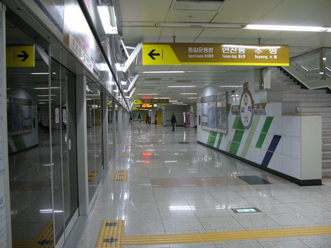 Busan Subway Line 3 Sajik Station